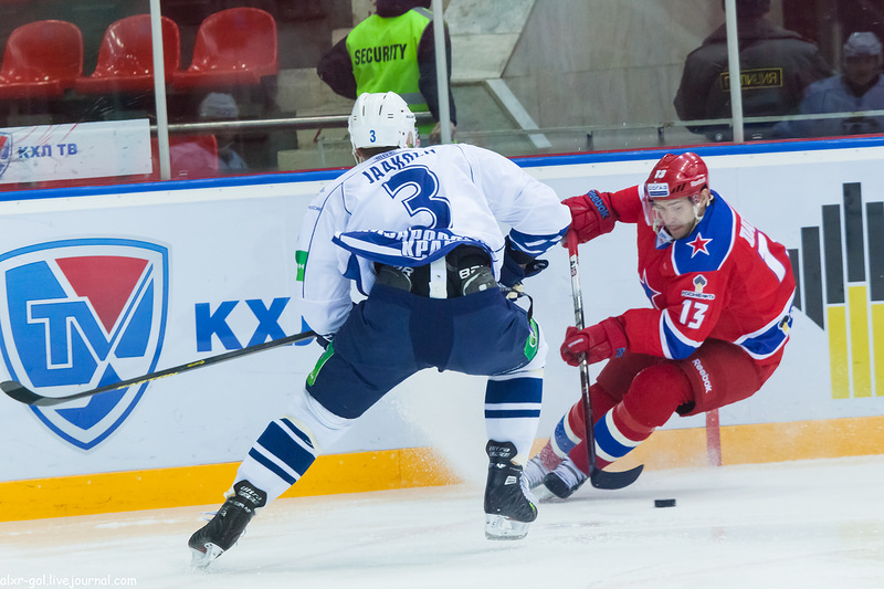 Amur Khabarovsk defenceman Topi Jaakola (in white) and CSKA Moscow forward Pavel Datsyuk (in red) during KHL game on November 2, 2012.